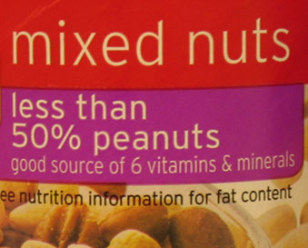 Detail of label on a can of Market Pantry brand mixed nuts, advertising "less than 50% peanuts"